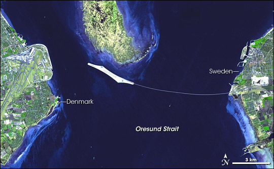 Annotated satellite image of the Oresund Bridge between Denmark and Sweden.